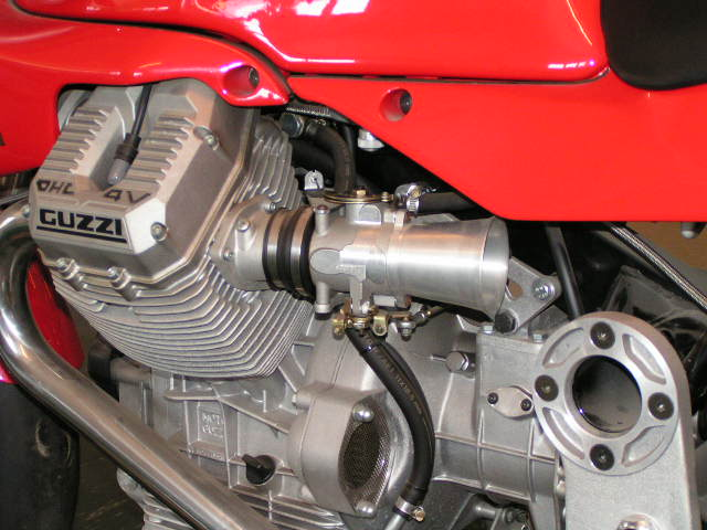 Detail shot of an Italian Moto Guzzi 1000 Daytona from the early 1990s, photographed in Maranello.